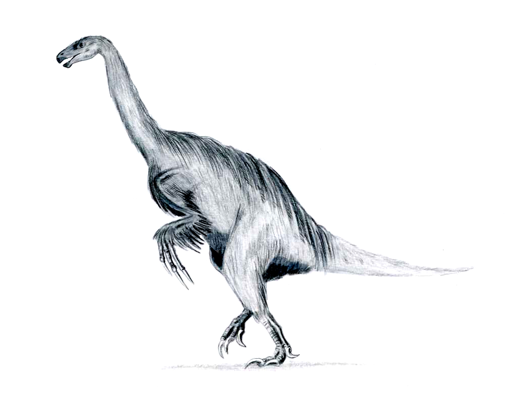 Erlikosaurus (feathered version) Author: User:ArthurWeasley